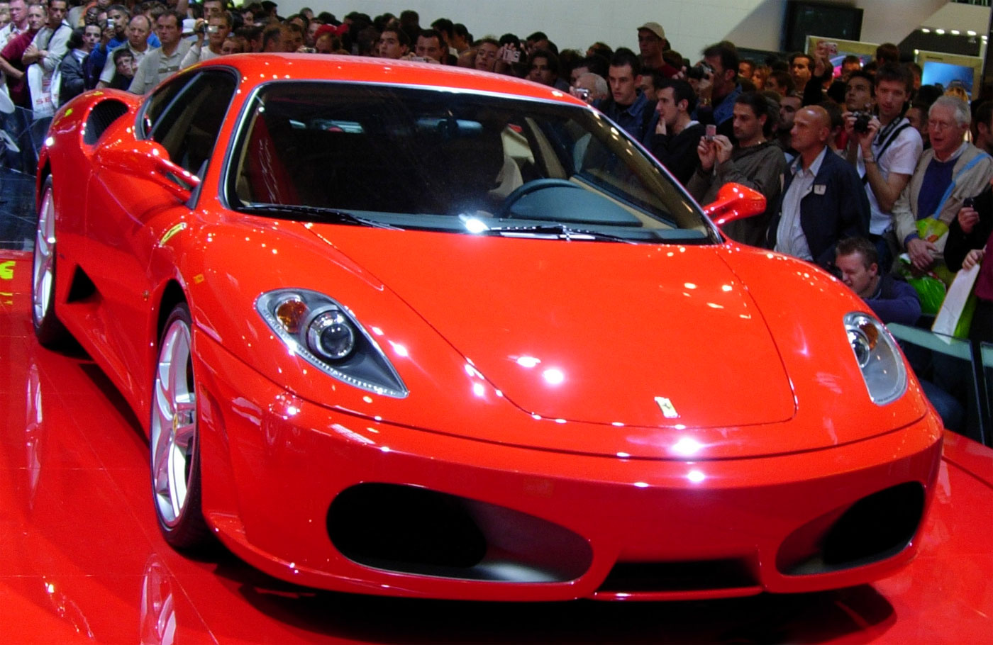 Ferrari F430 at the Paris Motor Show